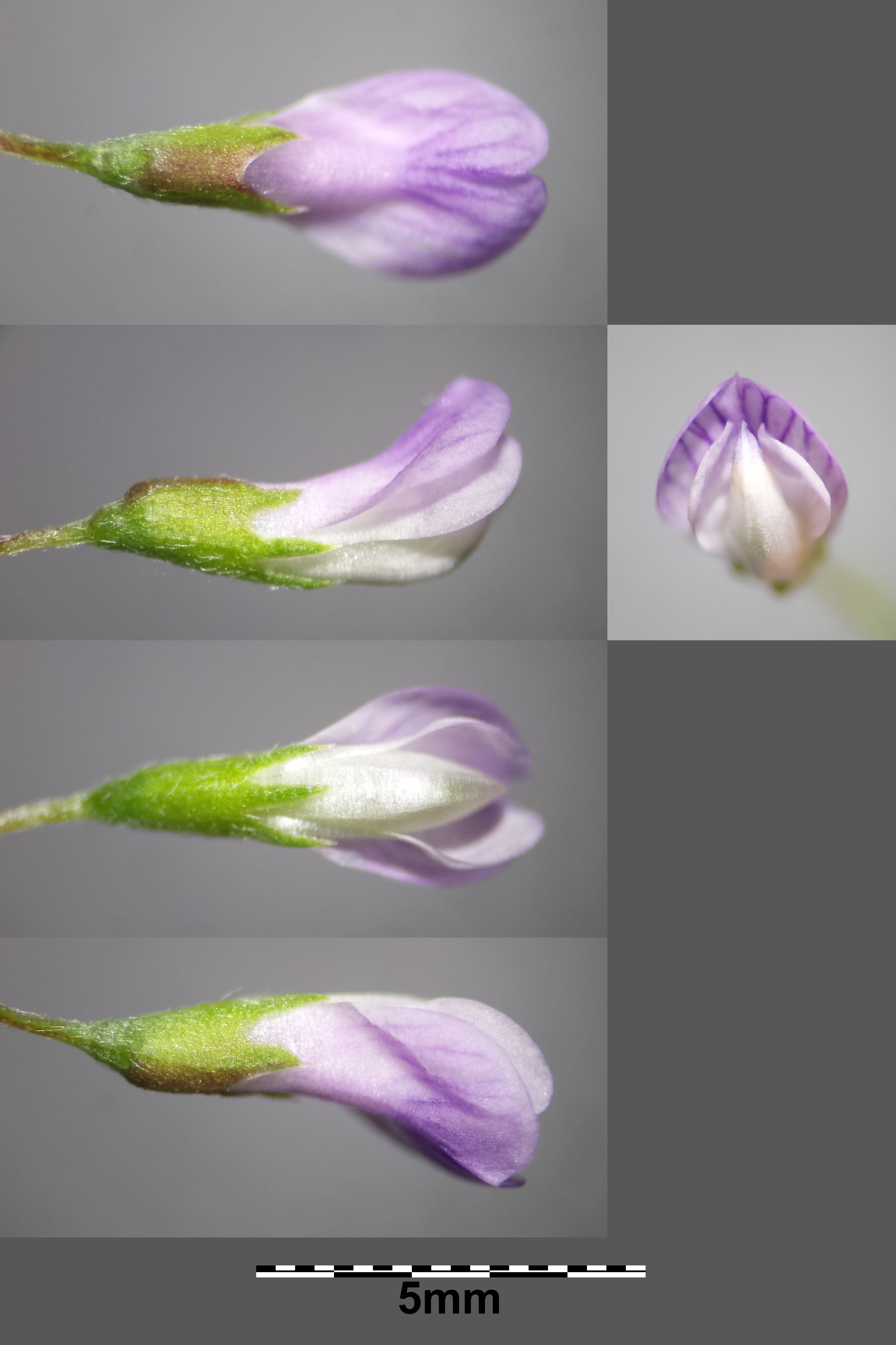 Flower Taxonym: Vicia tetrasperma ss Fischer et al. EfÖLS 2008 ISBN 978-3-85474-187-9 Location: between Stockerau and Spillern, district Korneuburg, Lower Austria - ca. 170 m a.s.l. Habitat: ruderal meadows